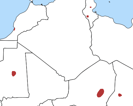 The Addax's Distribution.